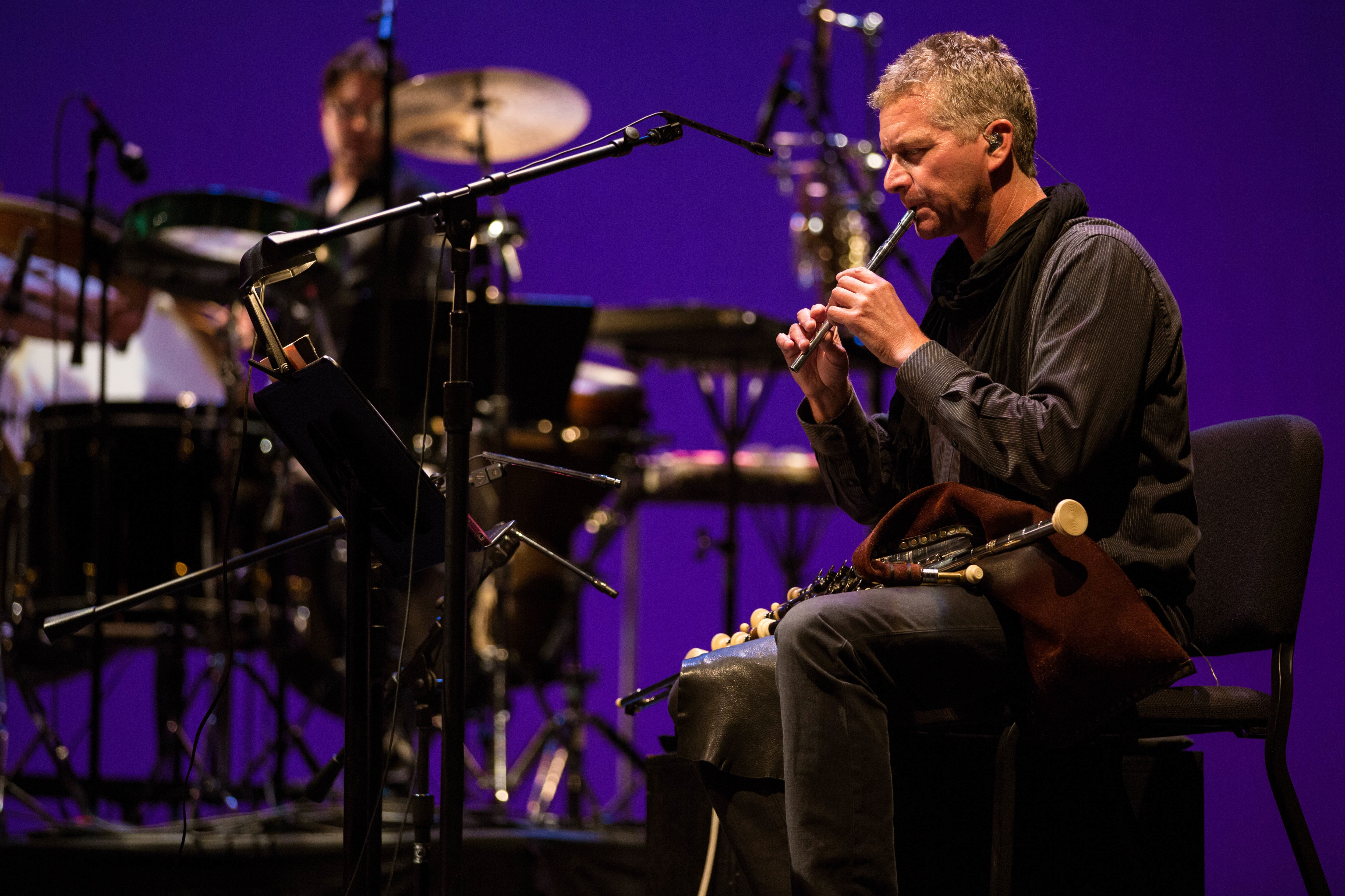 Eric Rigler performing live in concert in 2012. This will replace the outdated photo on Eric's current Wiki page.